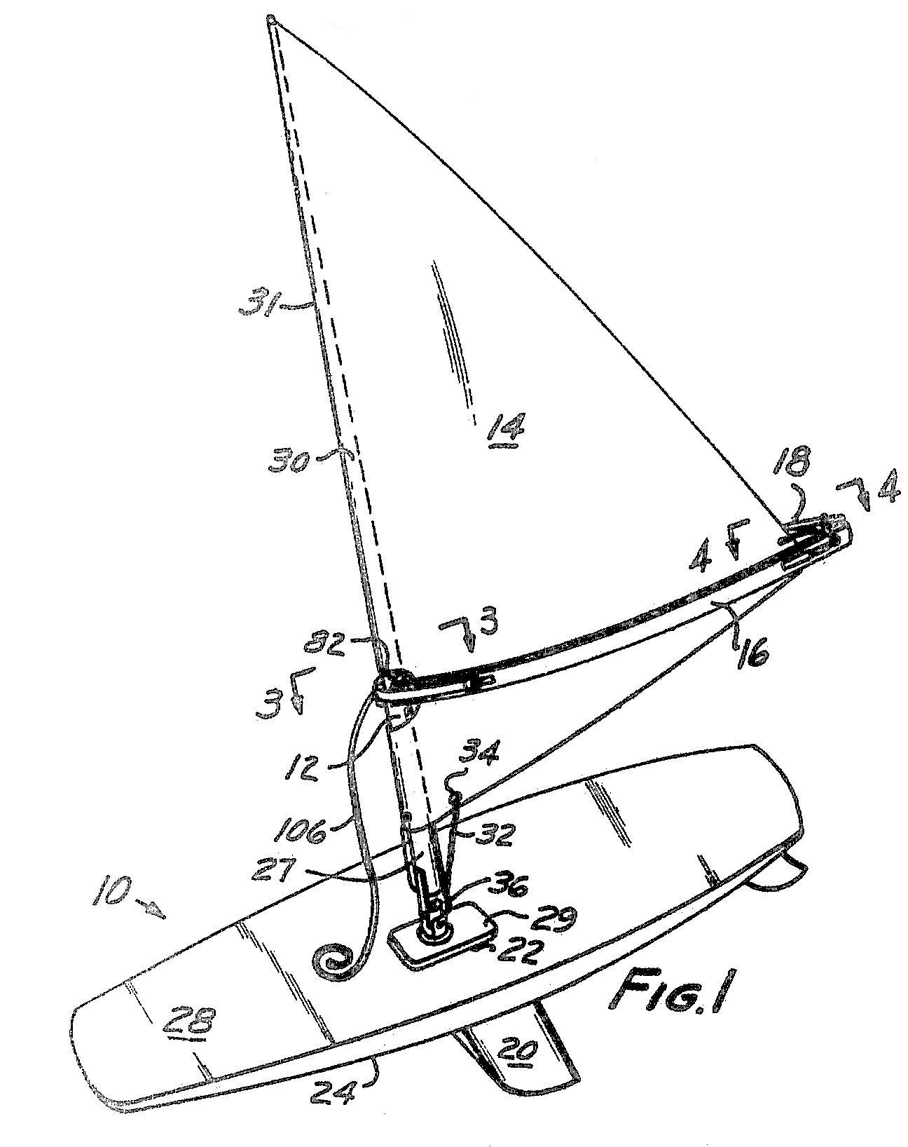 Illustration from US Patent 3,487,800, issued to inventors Jim Drake and Hoyle Schweitzer on January 6, 1970